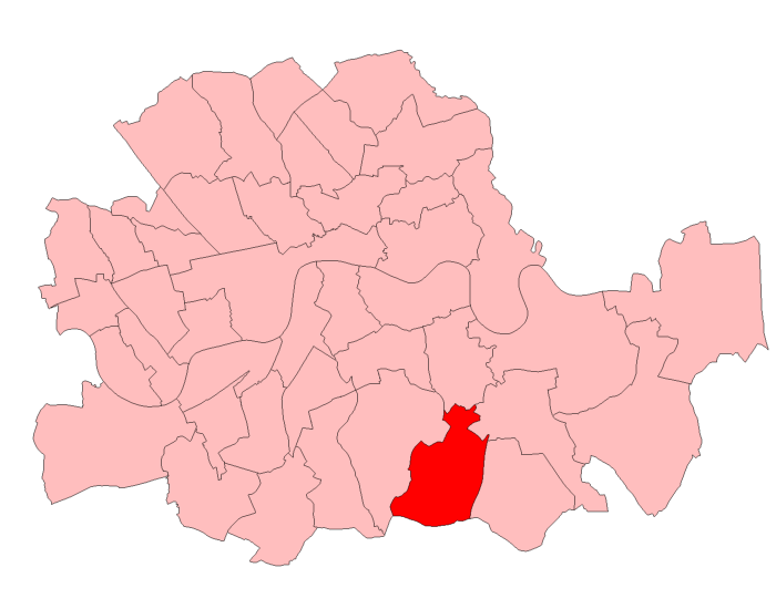 A map of Lewisham West constituency within the London County Council area, as it existed from 1950 to 1974.